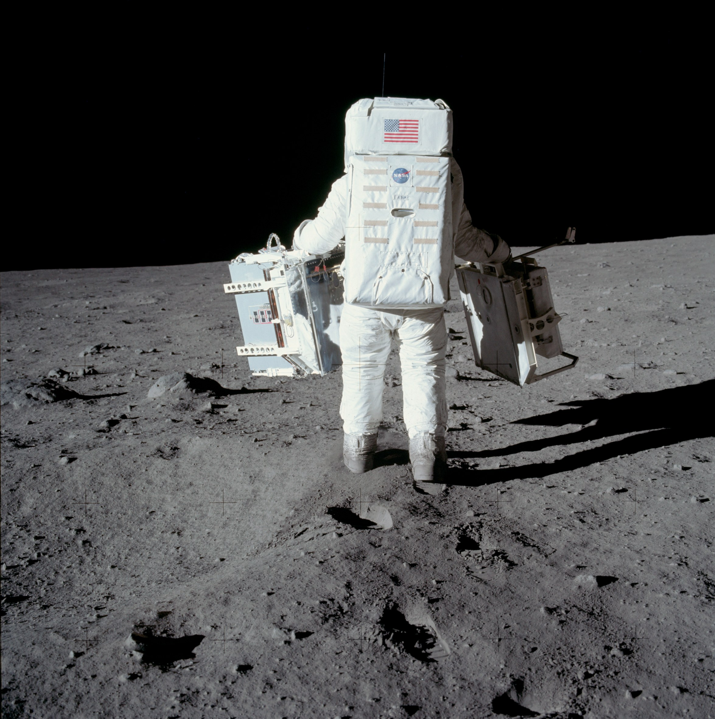 Buzz Aldrin carries the EASEP.